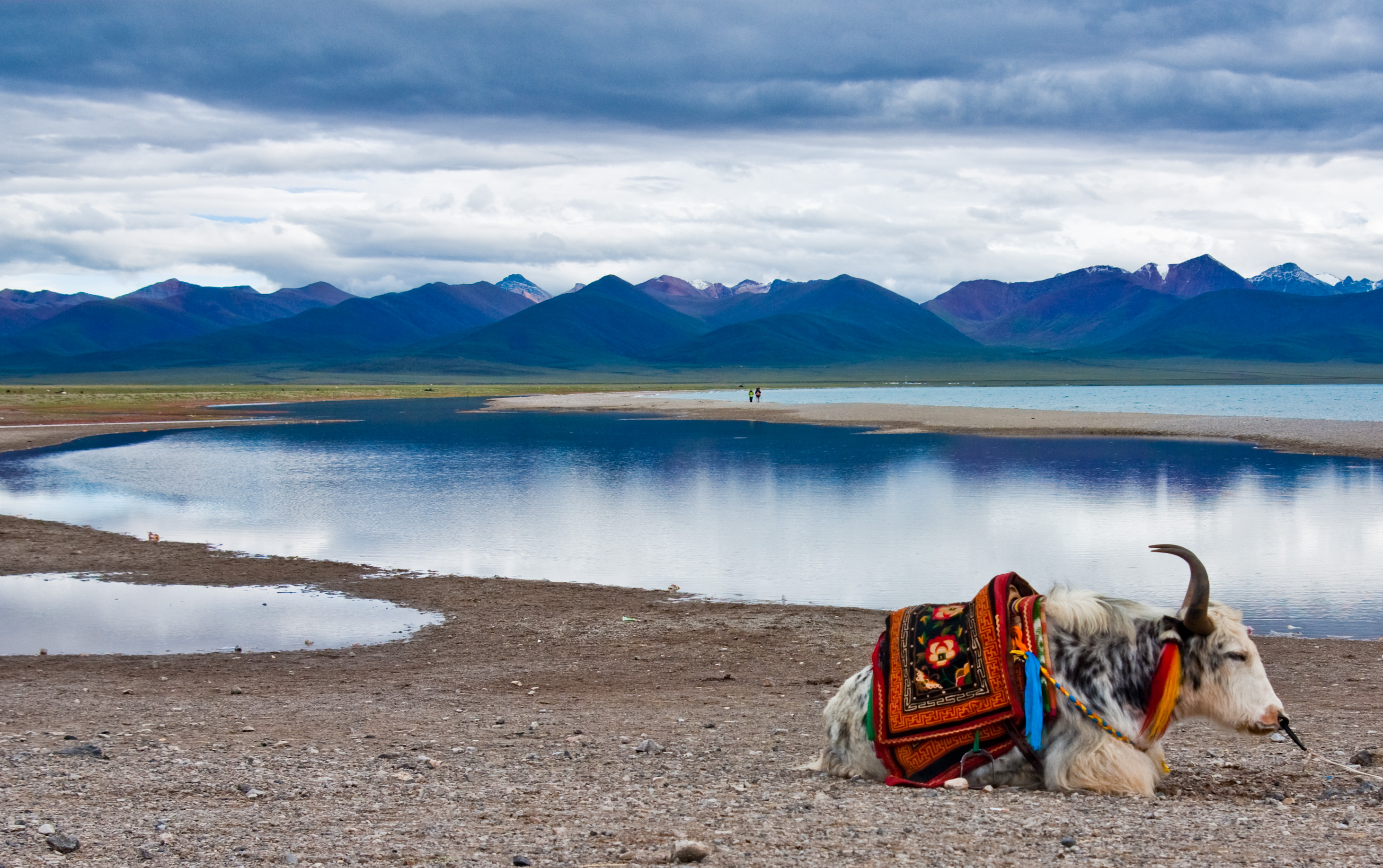 A yak near the Namtso